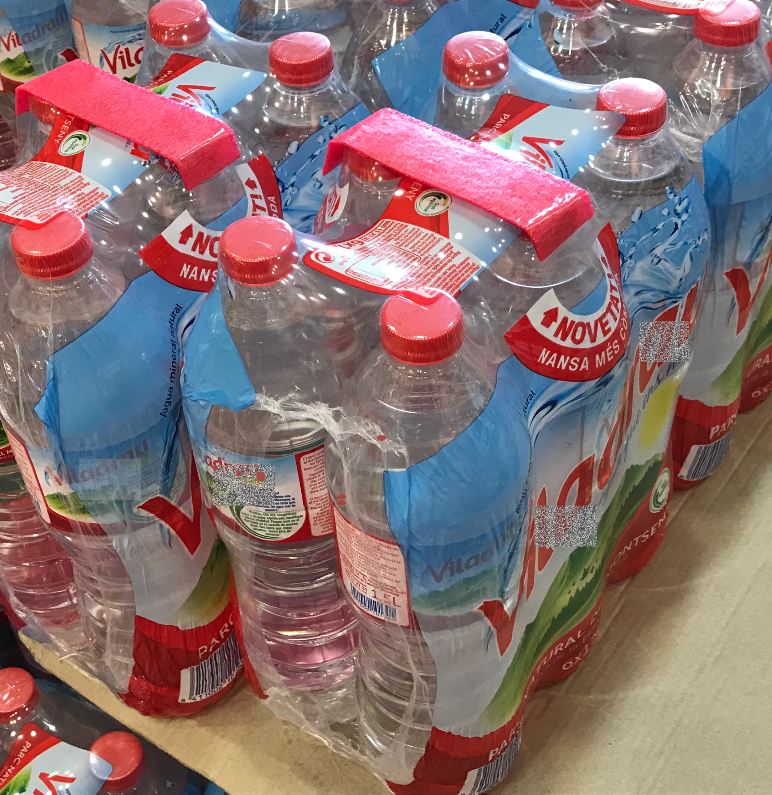 Six pack of plastic water bottles in Spain. Shrink film with a tape handle, red foam